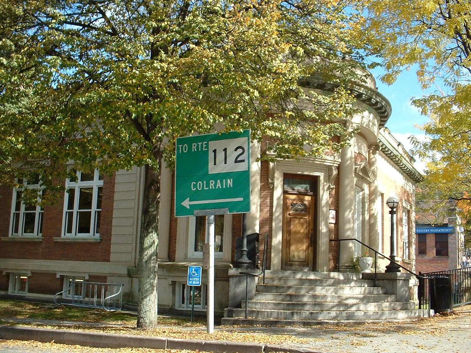 Arms Library, located at the intersection of Rtes. 2A and 112 in Shelburne Falls, Massachusetts. Arms Library, Main St & Bridge St, Shelburne Falls, MA